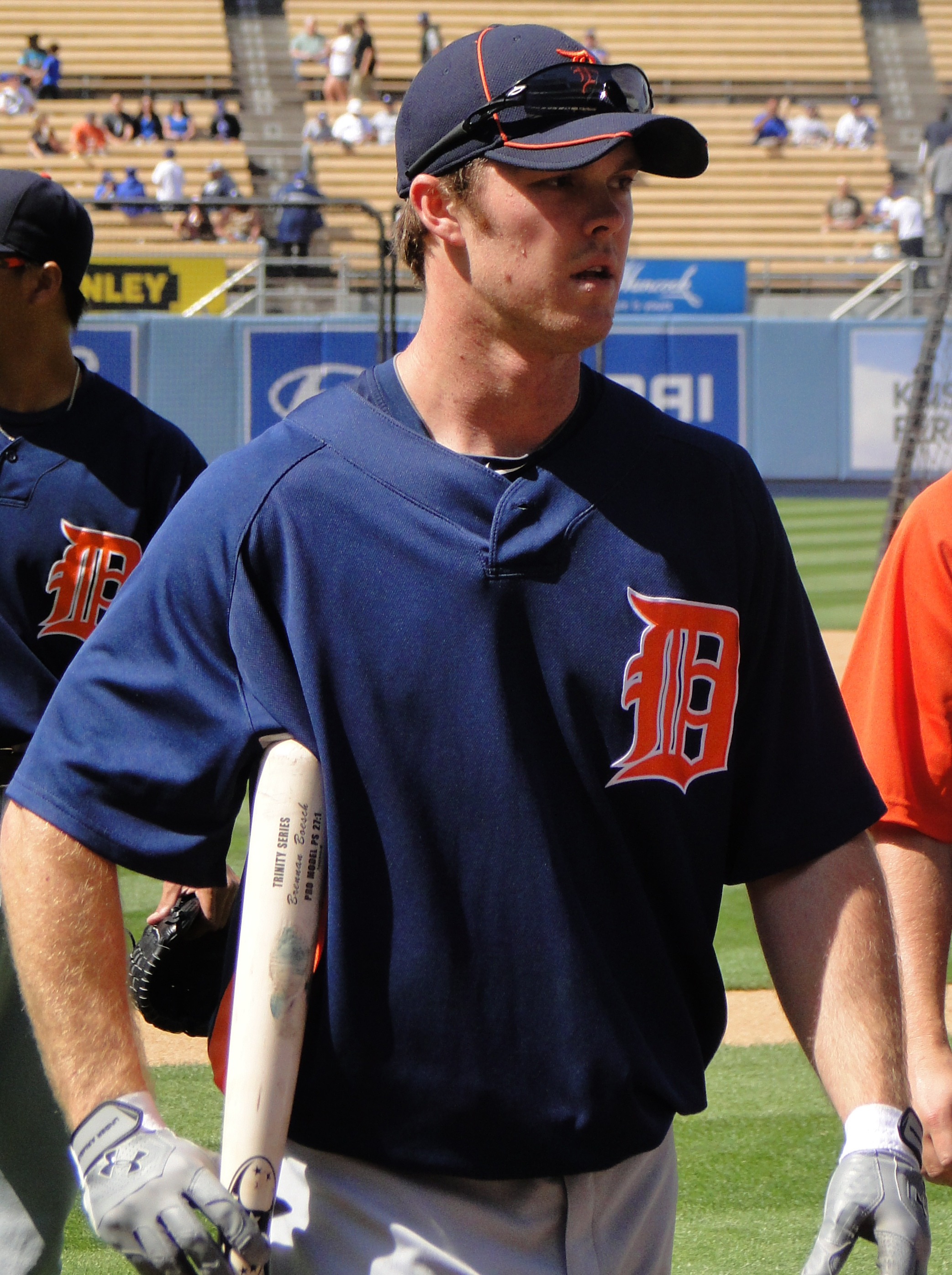 Description Brennan Boesch at Dodger Stadium Date22 May 2010SourceI (Cbl62 (talk)) created this work entirely by myself.AuthorCbl62 (talk) 07:13, 23 May 2010 . . Cbl62 . . 2,085×2,791 (1.89 MB) Brennan Boesch at Dodger Stadium